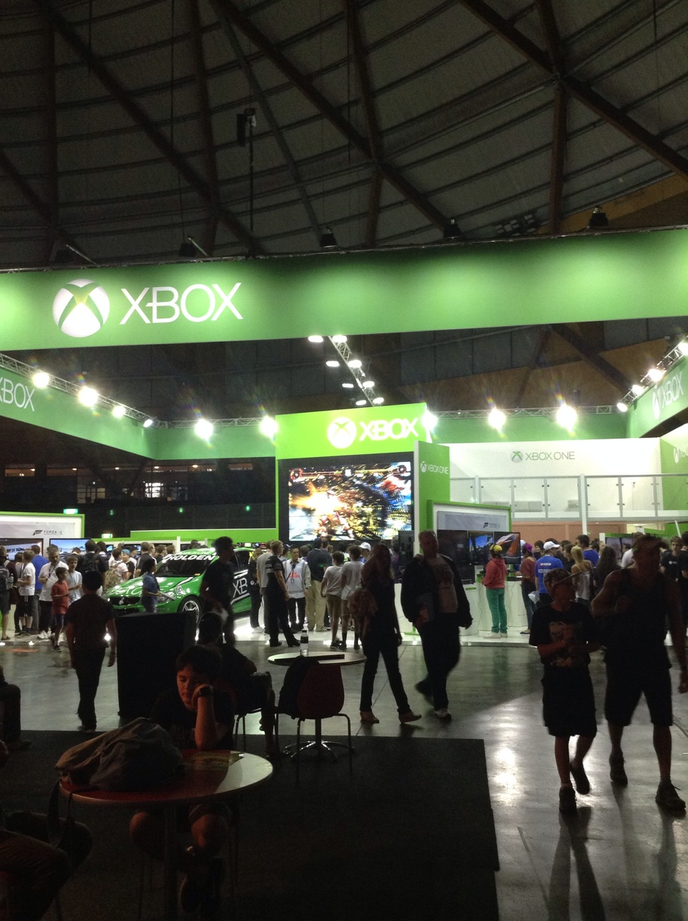 A view of the Xbox pavilion at the 2013 EB Games Expo. The pavilion took up nearly a quarter of the space in The Dome, Sydney Showground's Hall 1. For the first time in Australia, the Xbox One was available to play in a public setting; the console would be officially released in Australia two months later on 22 November.